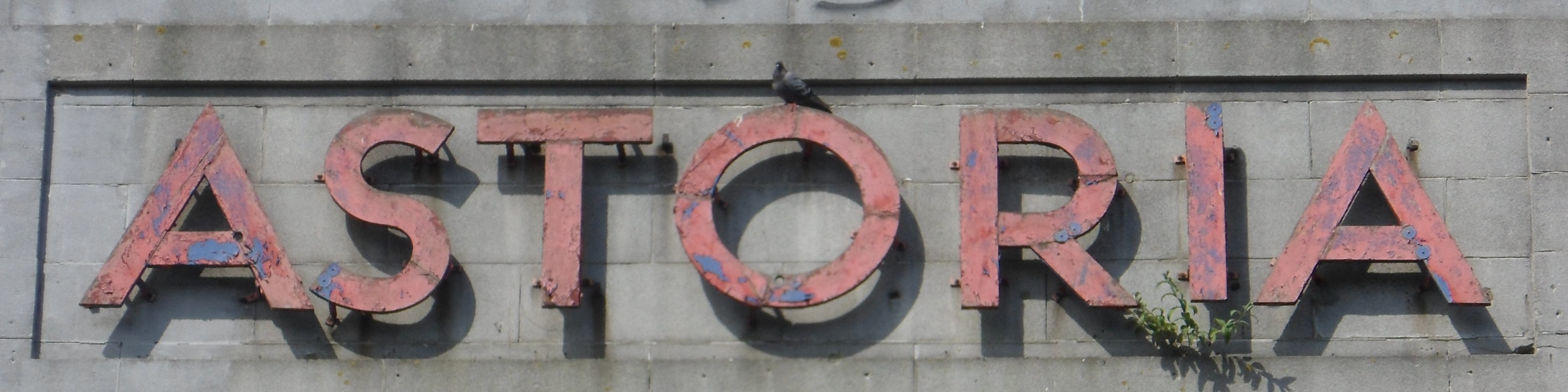 The former Astoria Cinema, Gloucester Place, Brighton, City of Brighton and Hove, England. Built in 1933 as an 1,800-capacity "super-cinema" by Edward Stone, it became a bingo hall in 1977 and closed down in 1997. As of 2013, it is still empty. This is a close-up of the logo, in 1930s Art Deco lettering, on the main façade. Listed at Grade II by English Heritage (IoE Code 486887)